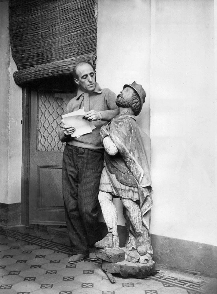 Argentine painter Benito Quinquela Martín along with a figurehead.